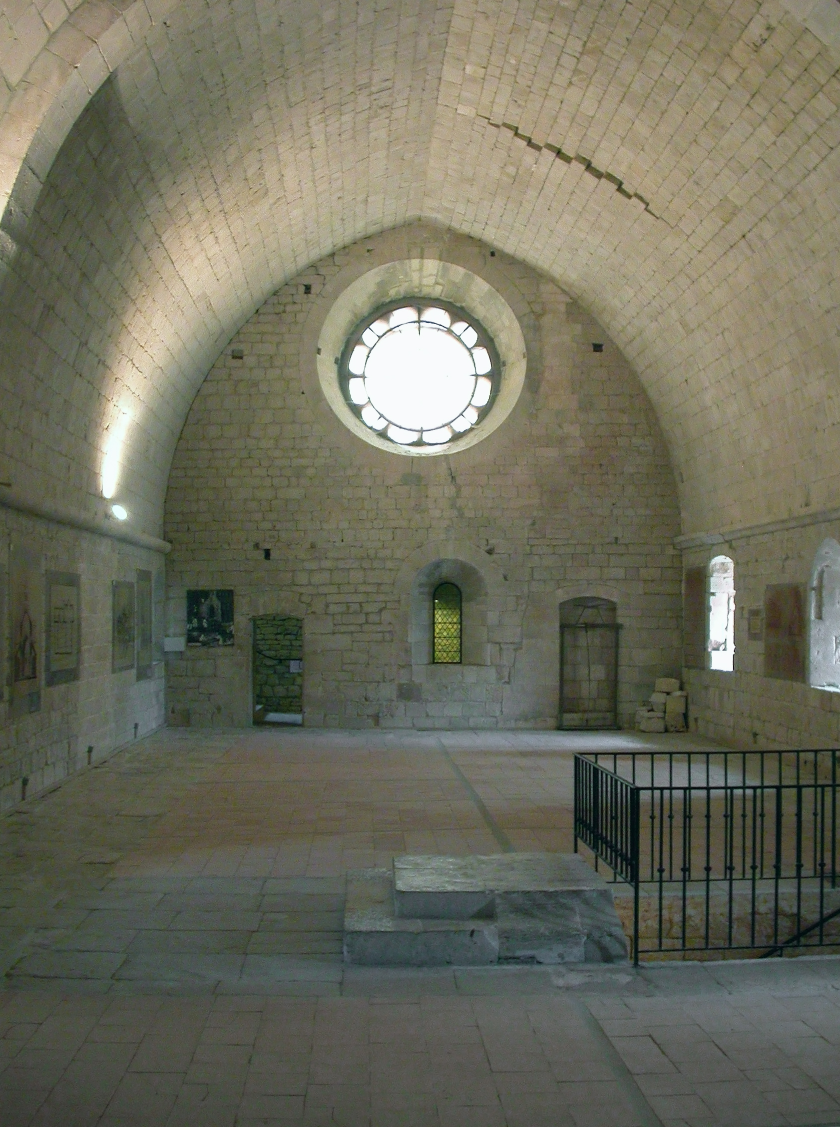 The old dormitory room of the Sénanque Abbey, in Provence, France